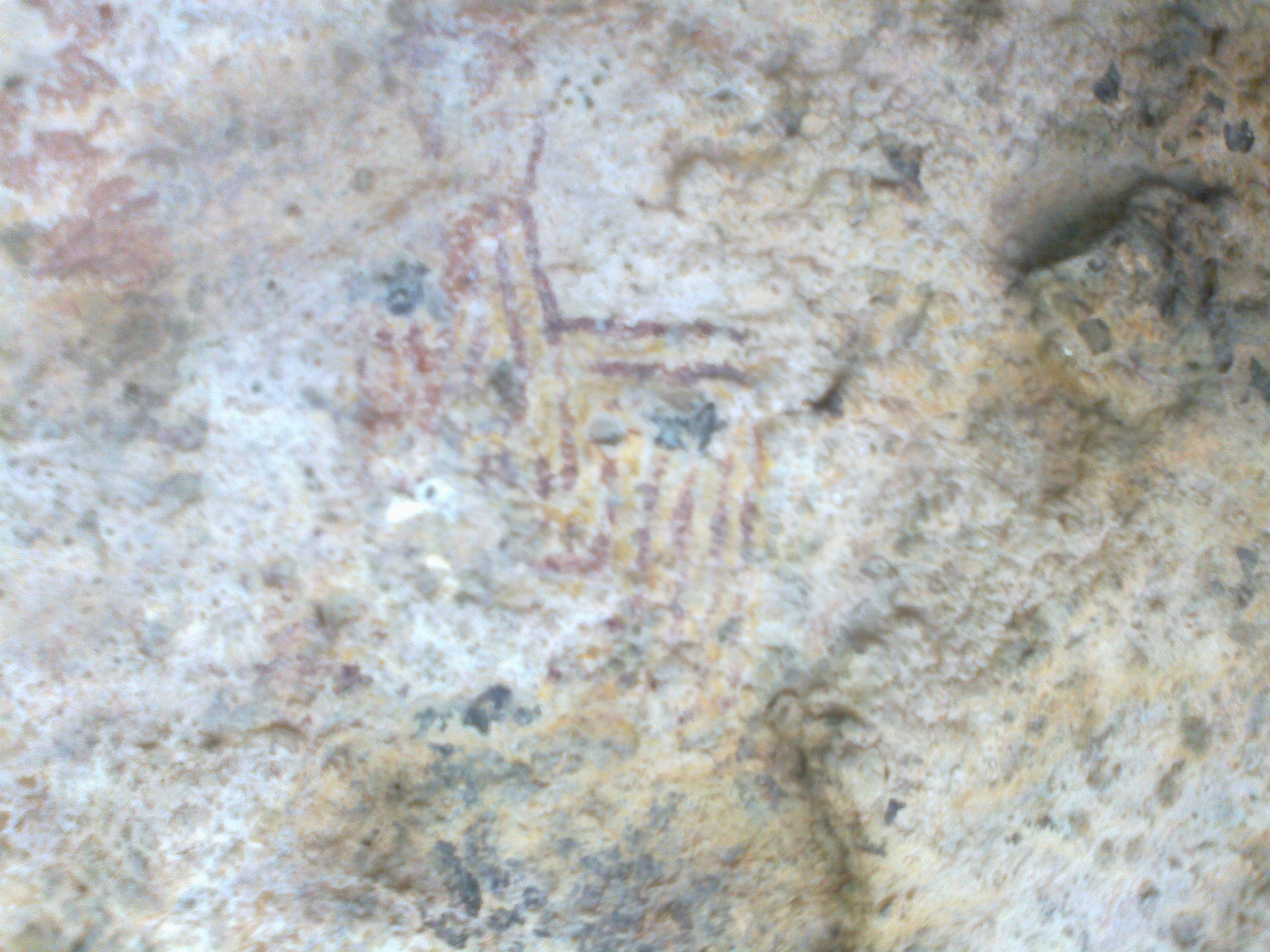 Horse like structure